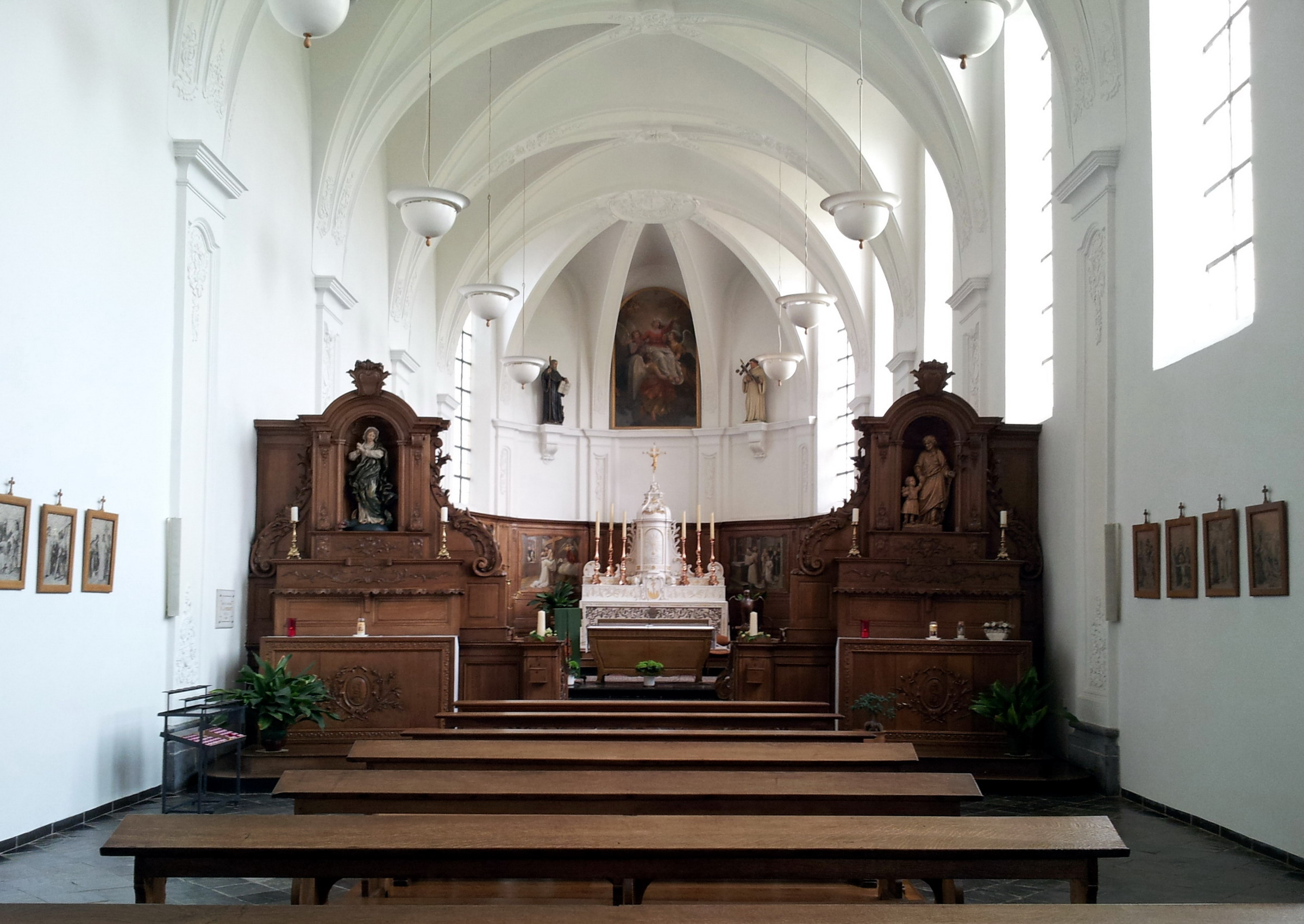 Borgloon-Kerniel, Belgium. View towards the choir of the chapel of Mariënlof Abbey with mainly 18th-century furniture in Liège-Aachen baroque style.